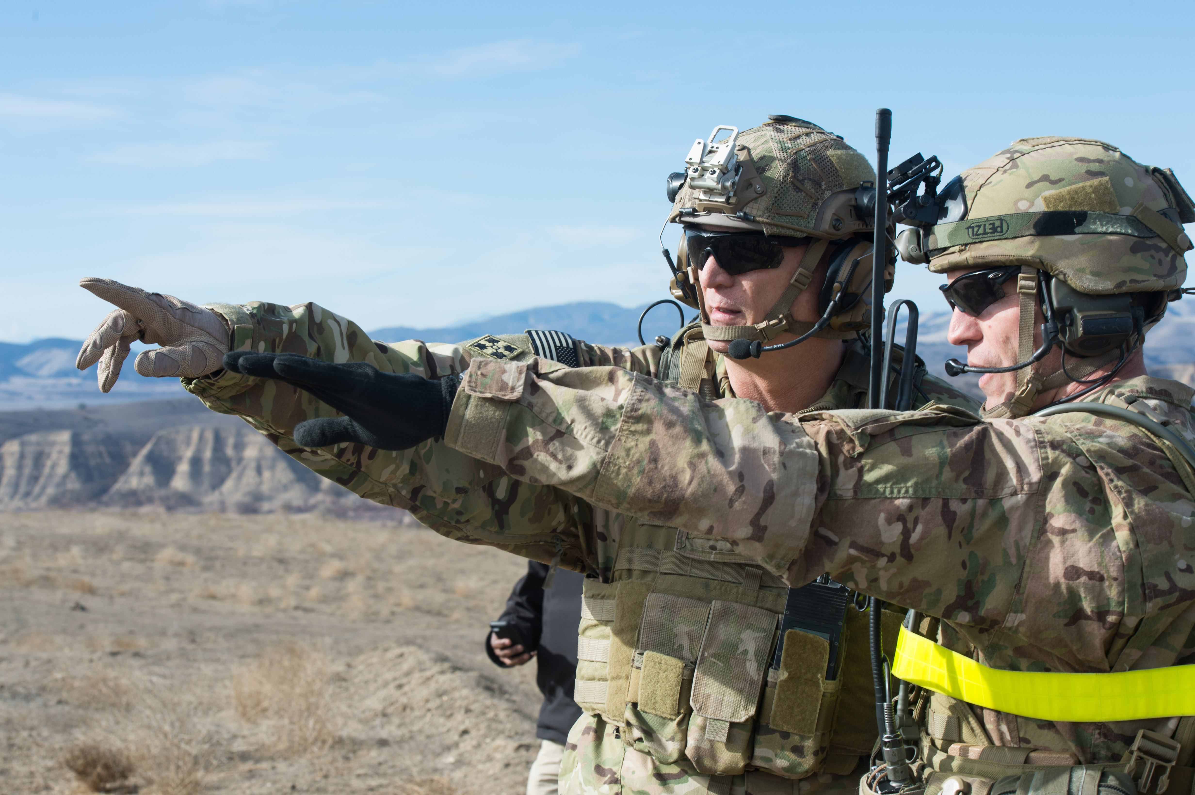 U.S. Army Chief of Staff Gen. Ray Odierno (left) observes as the 2nd Battalion, 75th Ranger Regiment conducts a live fire exercise at Fort Hunter Liggett, CA Jan. 31, 2014